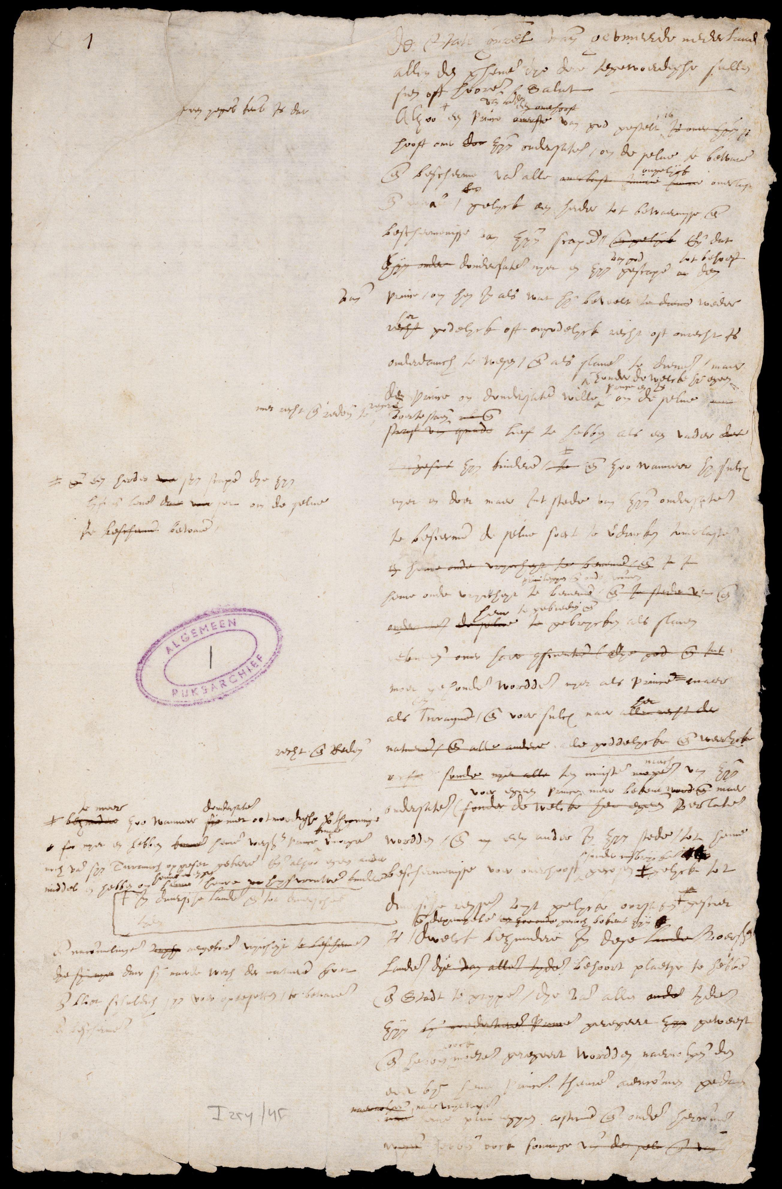 First page from "plakkaat van Verlatinghe" (Or "Oath of Abjuration" in English), by which the United Provinces formally declared their independence from the Spanish king.